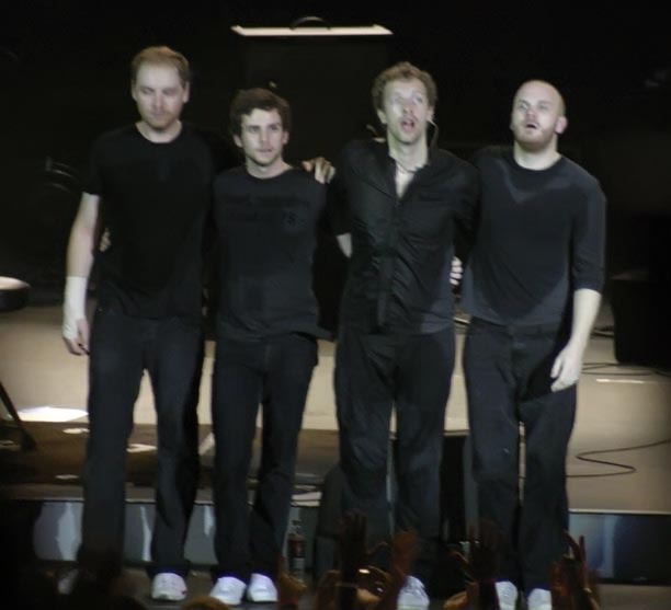 Coldplay's Concert at Verizon Wireless Amphitheater in Bonner Springs, KS - September 21, 2005